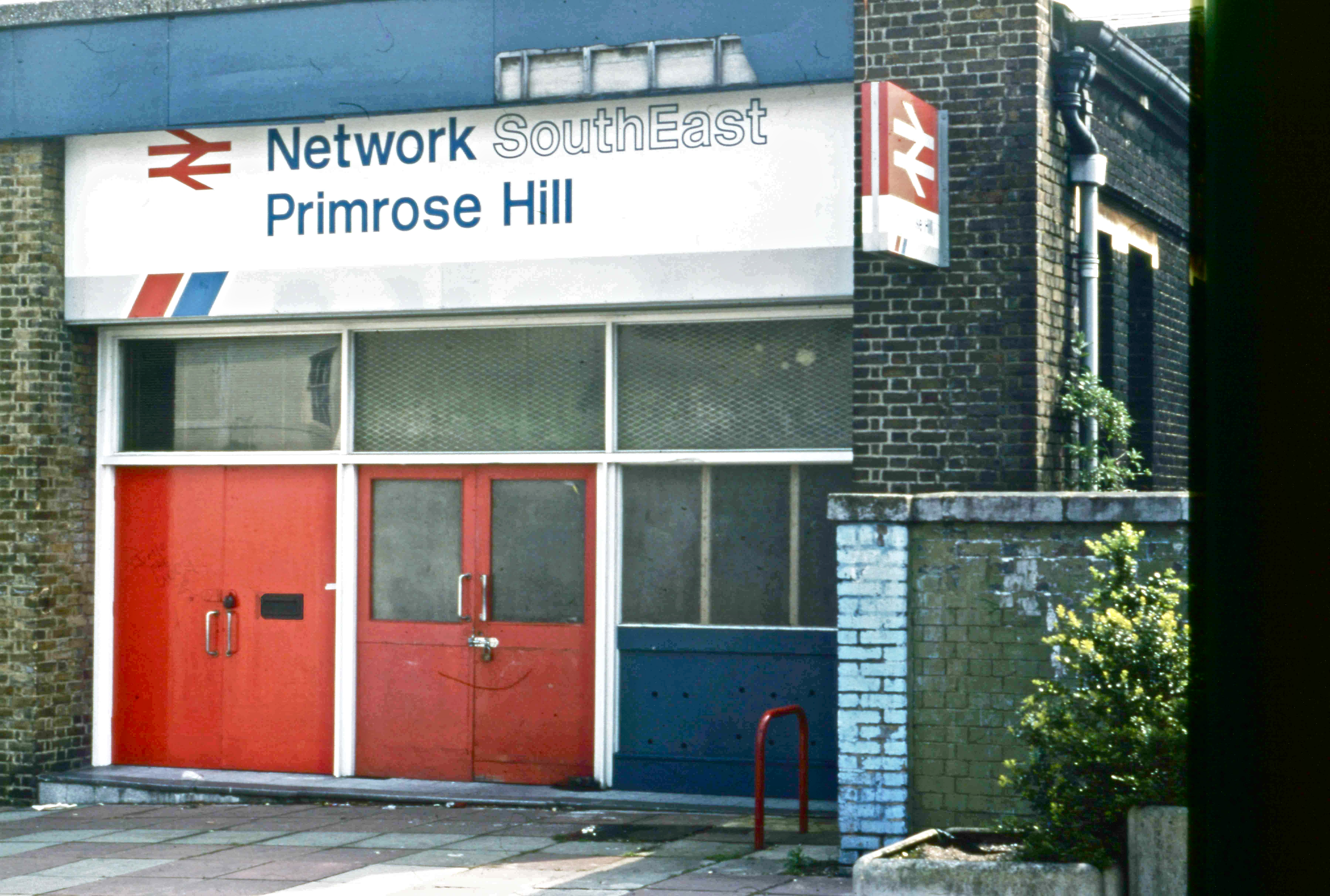 Network SouthEast Primrose Hill station entrance in 1990, closed 1992